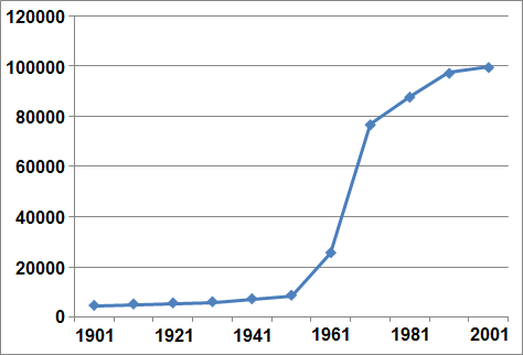 Graph of population change in Crawley from 1901 to 2001. Created in MSExcel. Larger version of original graph (here) by Tafkam.